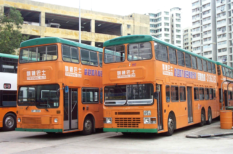 Two training buses of the New World First Bus Company in Hong Kong, parking at the bus terminus outside a bus depot at Chai Wan. The model of the left one is MCW Metrobus, and the right one Dennis Condor.